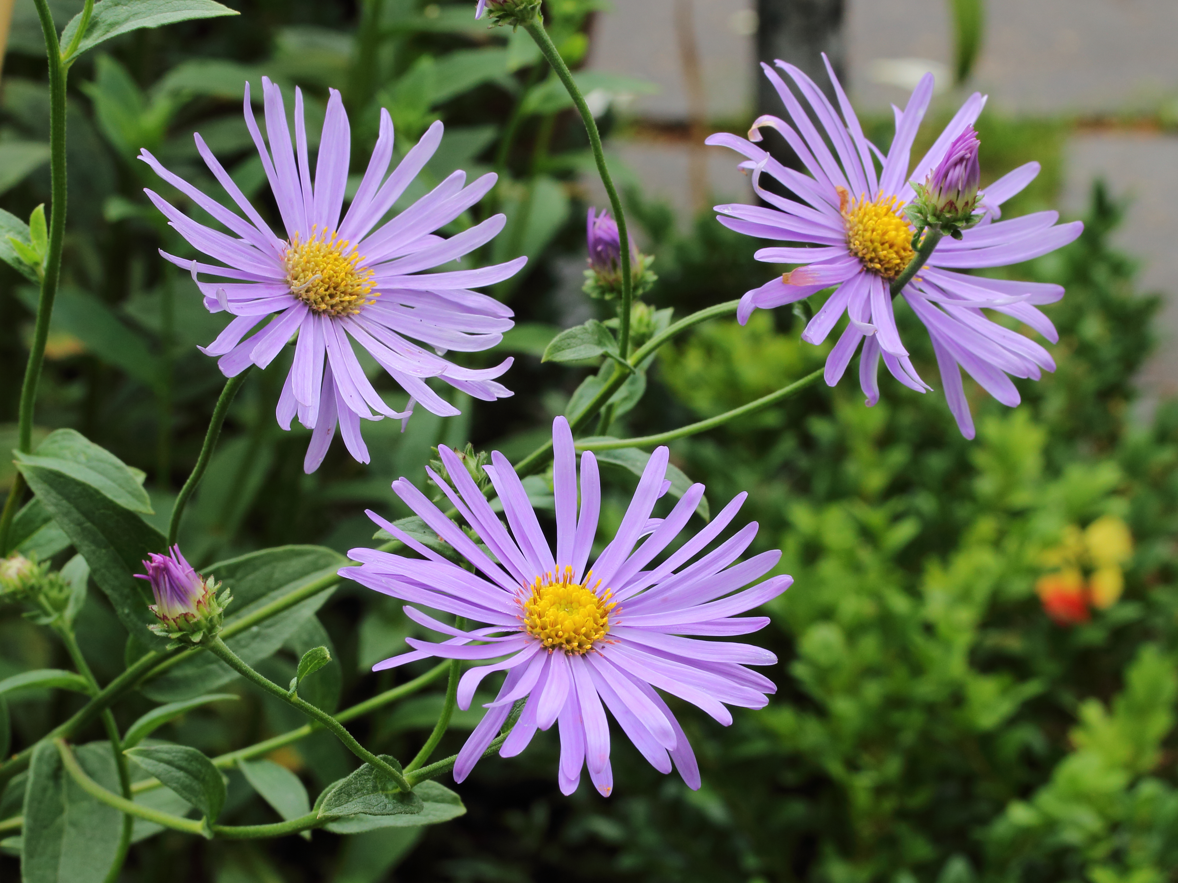 Aster thomsonii. This beautiful aster flowers from July to September.